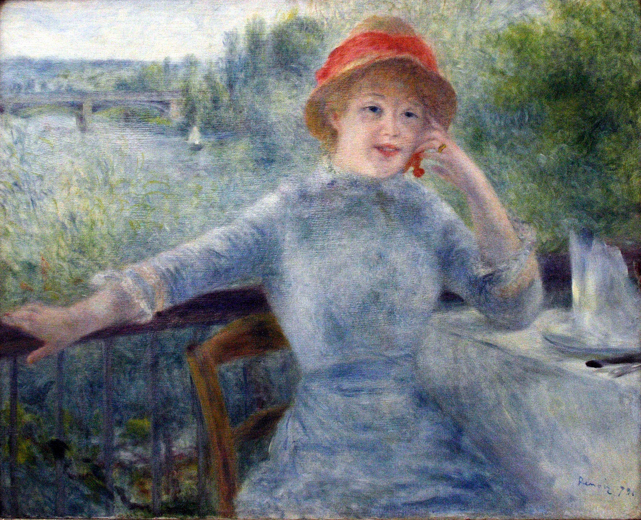 Painting of Renoir in the Orsay Museum, Paris